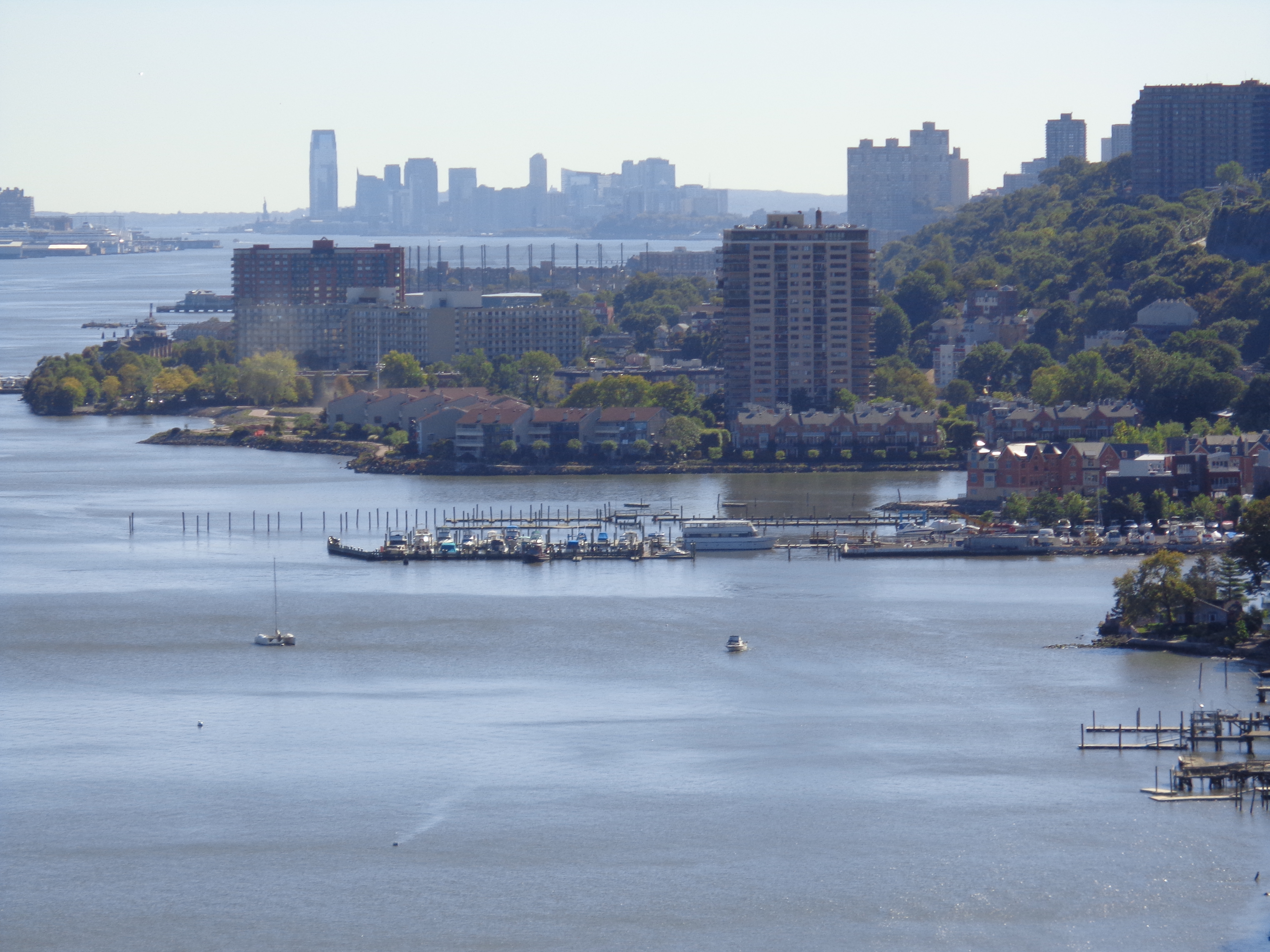 HudsonRiverWaterfront looking south from GWBridge (Fort Lee to Jersey City)